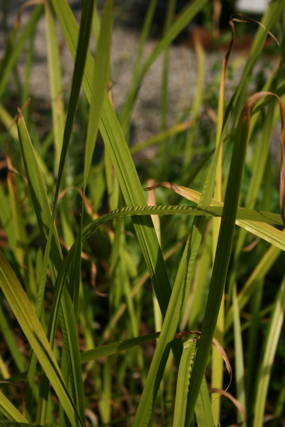 Acorus calamus: Foliage.